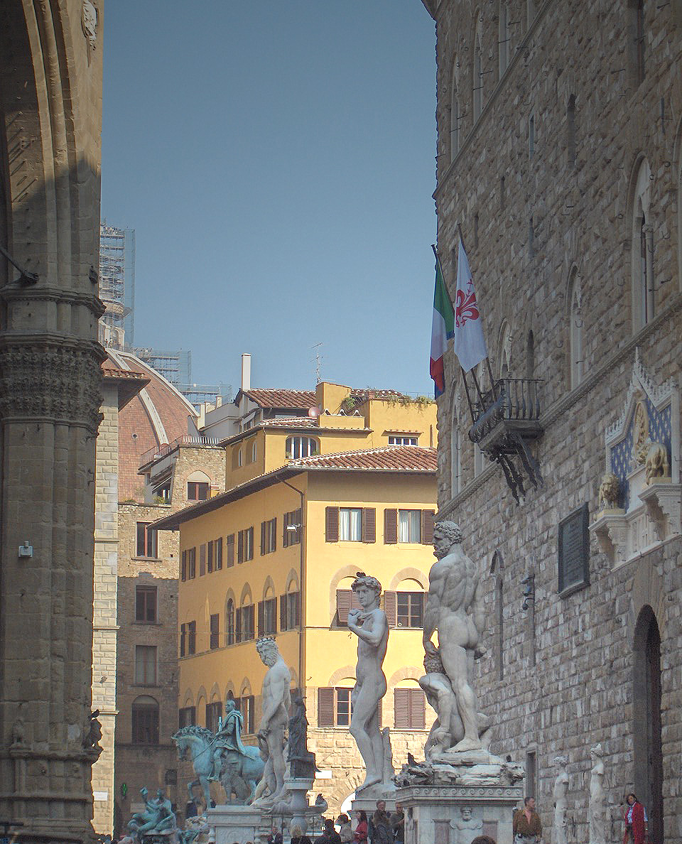 The statues at the entrance of the Palazzo Vecchio, Florence, Italy Own photo - photo made by Georges Jansoone on 13 October 2005